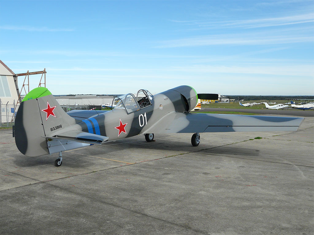 Yakovlev Yak-50 VH-DZY. Bankstown 2008.